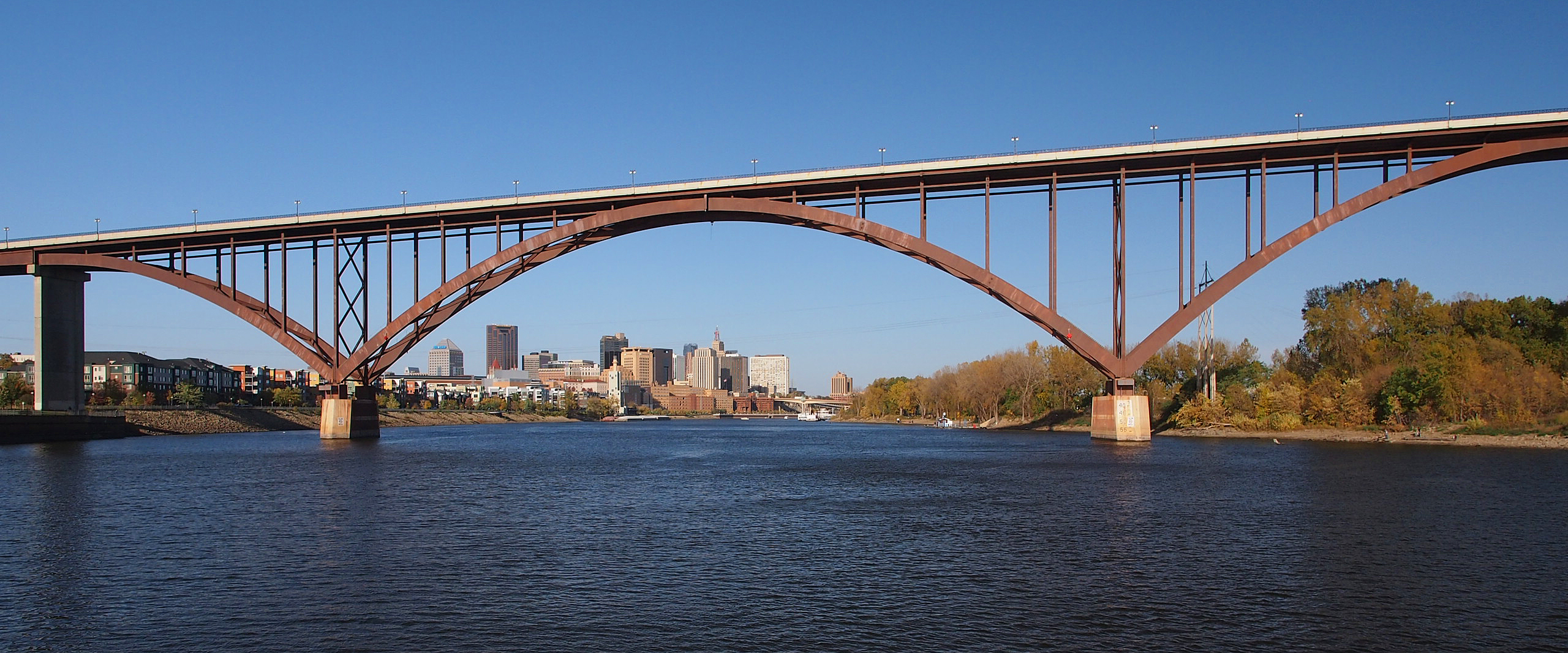 The Smith Avenue High Bridge from the Mississippi River with downtown St Paul in the background, St Paul, Minnesota, USA. Viewed from southwest.